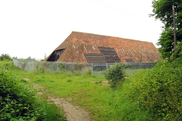 Unconverted Barn at Manor Farm, Frindsbury C13 aisled barn. Grade I listed